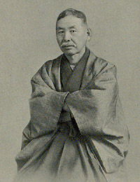 Kiyochika Iwashita